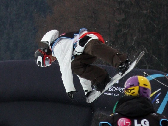 Kim Ho-jun in Kreischberg